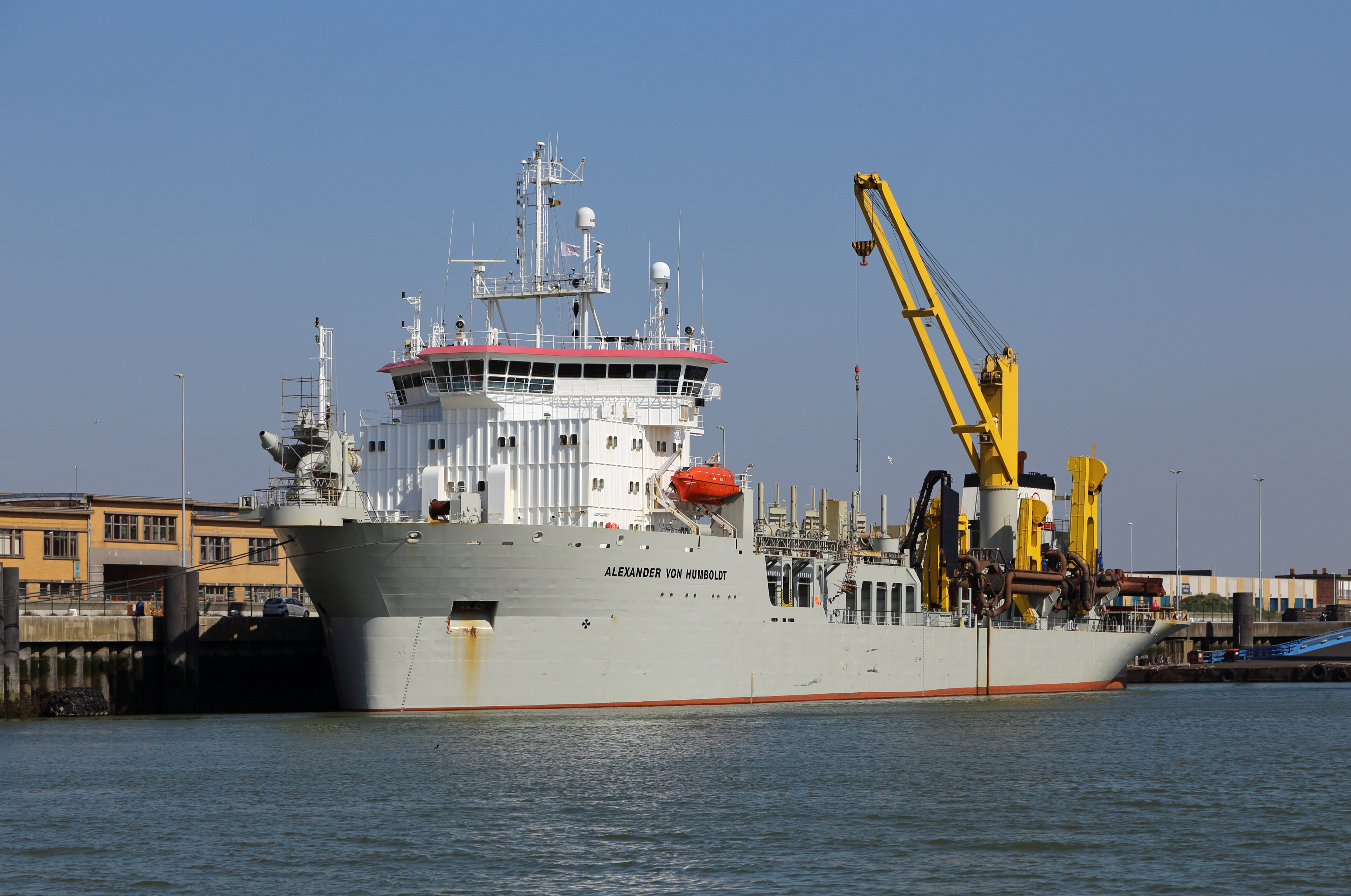 Belgian trailing suction hopper dredger Alexander von Humboldt in the harbour of Ostend (Belgium)